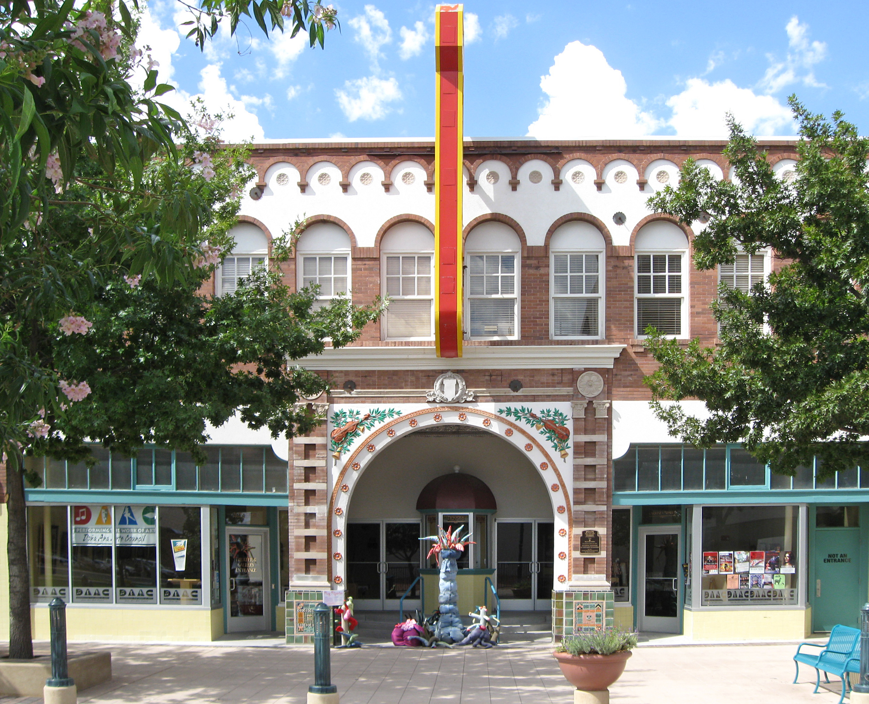 Rio Grande Theatre, a performing arts center located at 211 N. Downtown Mall in Las Cruces, New Mexico. Listed on the National Register of Historic Places, NRIS Item No. 03001352. The items in front of the arch are an installation, "Rag Riparian" by Mary Lucking and Pete Goldlust, part of the Temporary Installations Made for the Environment (T.I.M.E.) sponsored by New Mexico Arts, City of Las Cruces, and Doña Ana Arts Council.